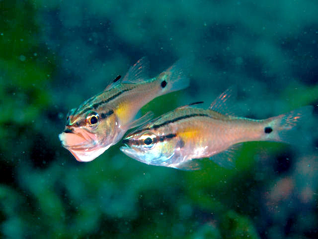 Apogon semilineatus